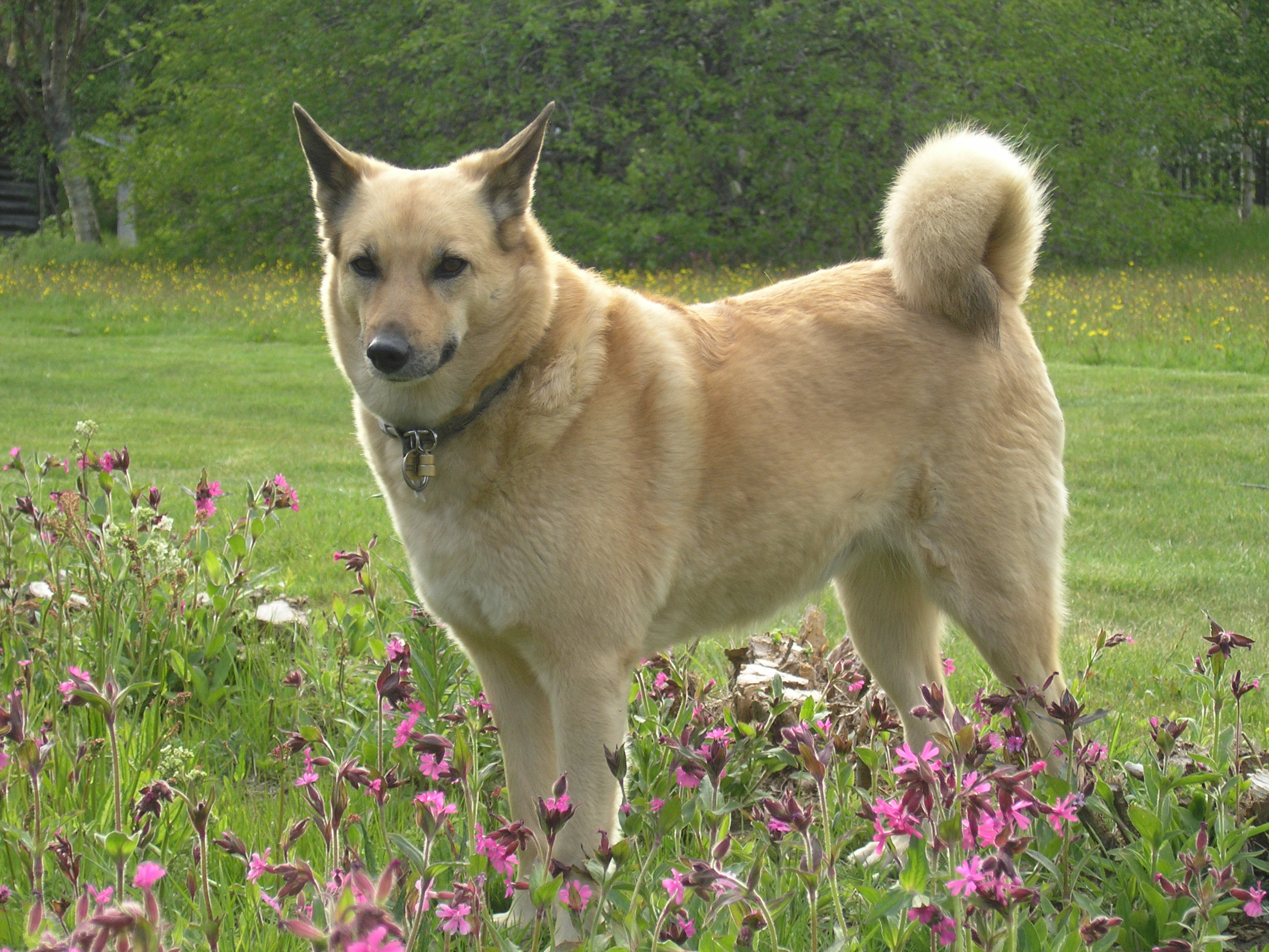 Mixture between Norwegian Elkhound and Finnish Spitz